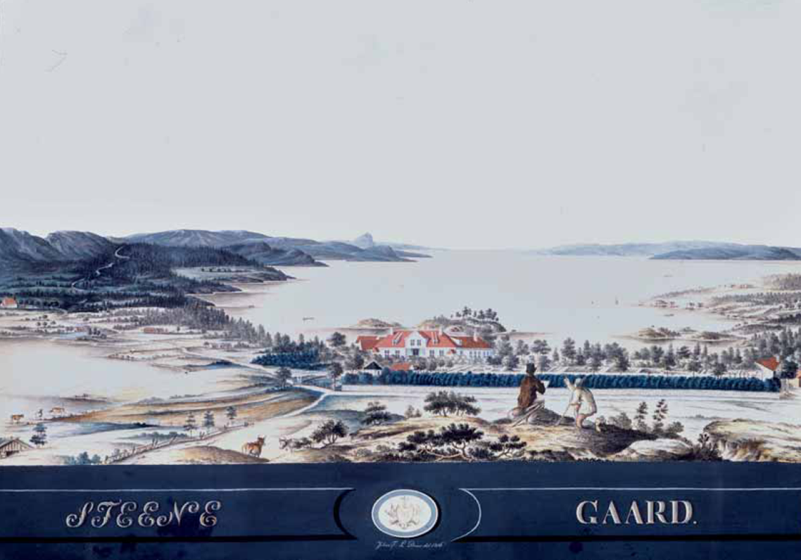 Prospect of Steene Gaard (Stend), Fana, Bergen, Norway